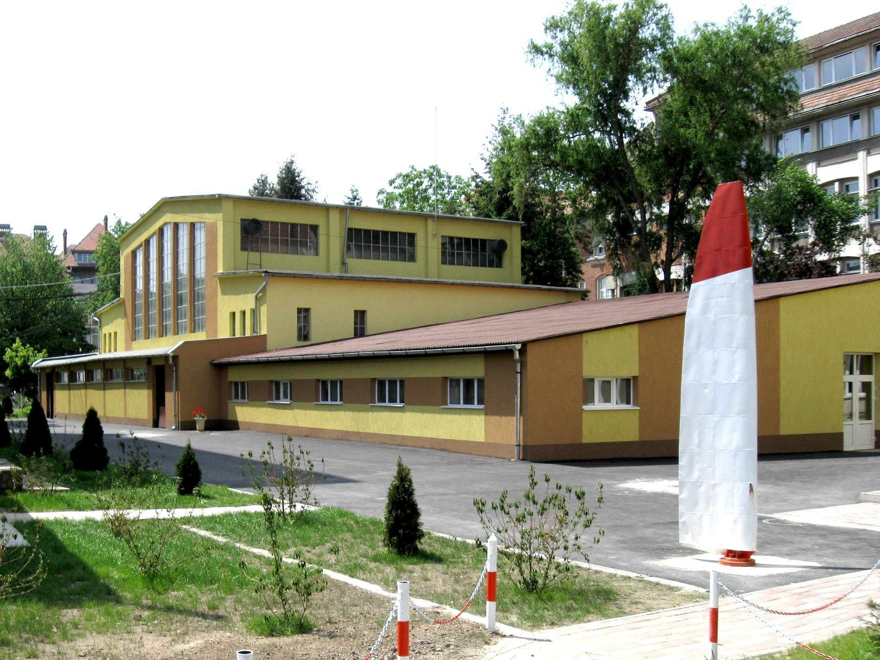 Laboratory for hydraulic machinery "Aurel Bărglăzan", Faculty of Mechanical Engineering of Timisoara.